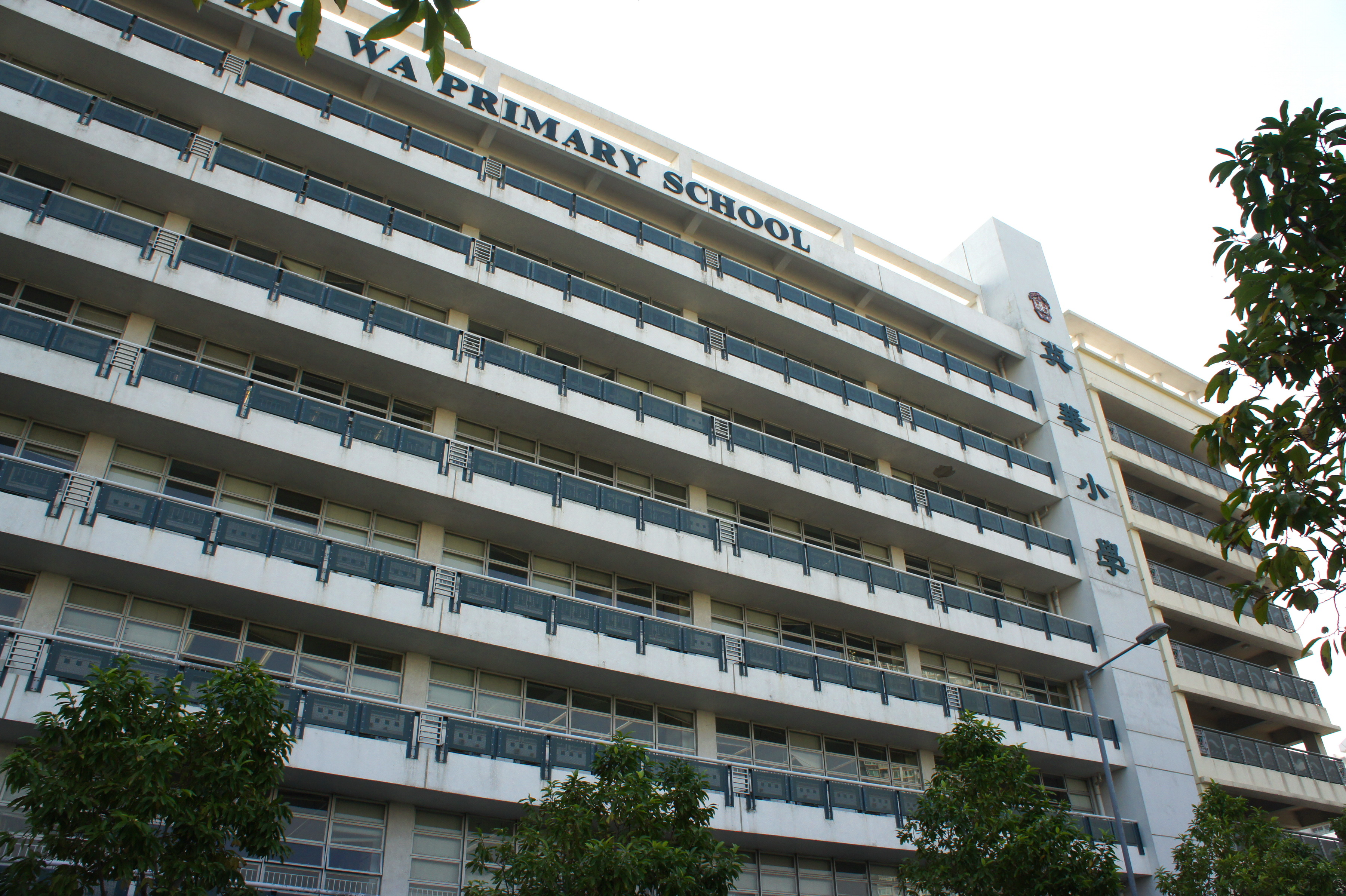 Ying Wa Primary School, Sham Shui Po, Kowloon, Hong Kong.